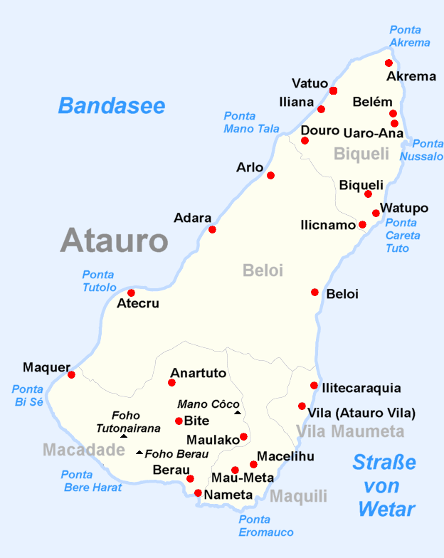 Administrative map of Atauro/East Timor